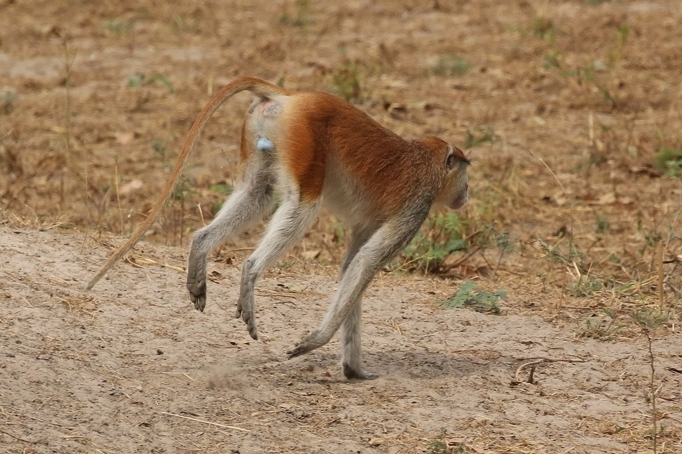 Patas monkey (Erythrocebus patas) male rear, Senegal